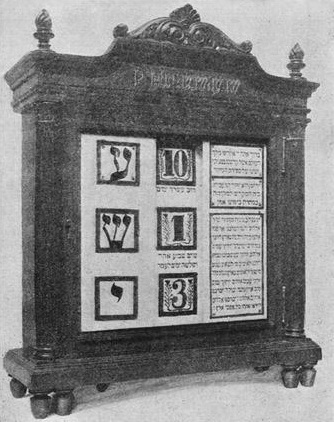 Omer table, depicting the number of days in the omer (top) and its equivalence in number of weeks (middle) and days (bottom)